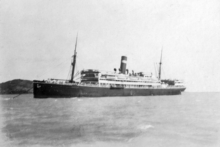 SS Marella. (Ship by which the Home Secretary and party travelled between Thursday Island and Cairns on the offical inspection tour of Aboriginal Stations in North Queensland and Torres Strait.)